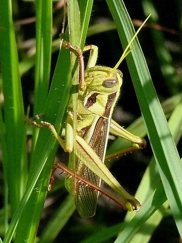 Male Cyrtacanthacris aeruginosa photographed in Katavi National Park, Tanzania.